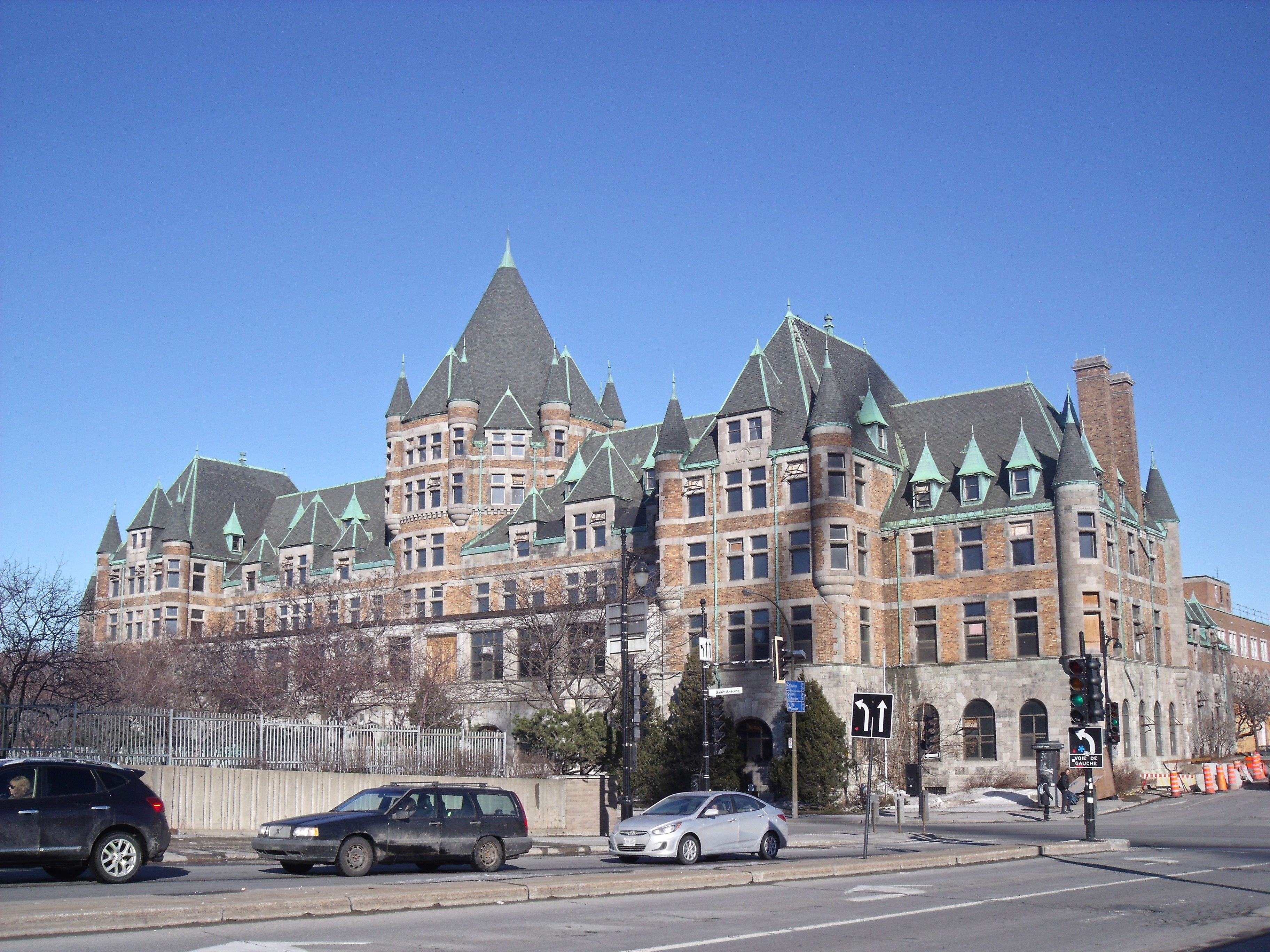 Jacques-Viger Building, 700 Saint-Antoine Street East, Montreal, Quebec, Canada.